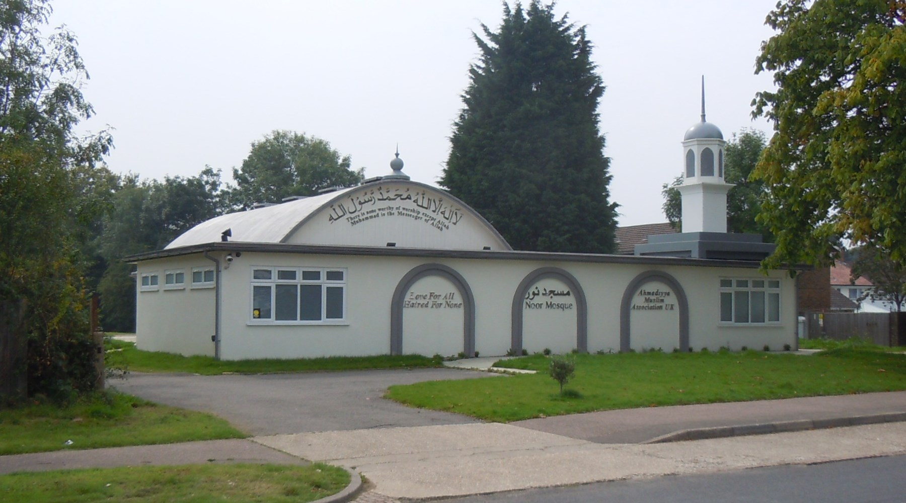 Noor Ahmadiyya Mosque is at Langley Drive, Langley Green, Crawley, West Sussex. It opened in 2014 in a building formerly occupied by a Pentecostal church, whose congregation had moved to a disused United Reformed Church building in Ifield. It is one of three mosques in the Borough of Crawley.